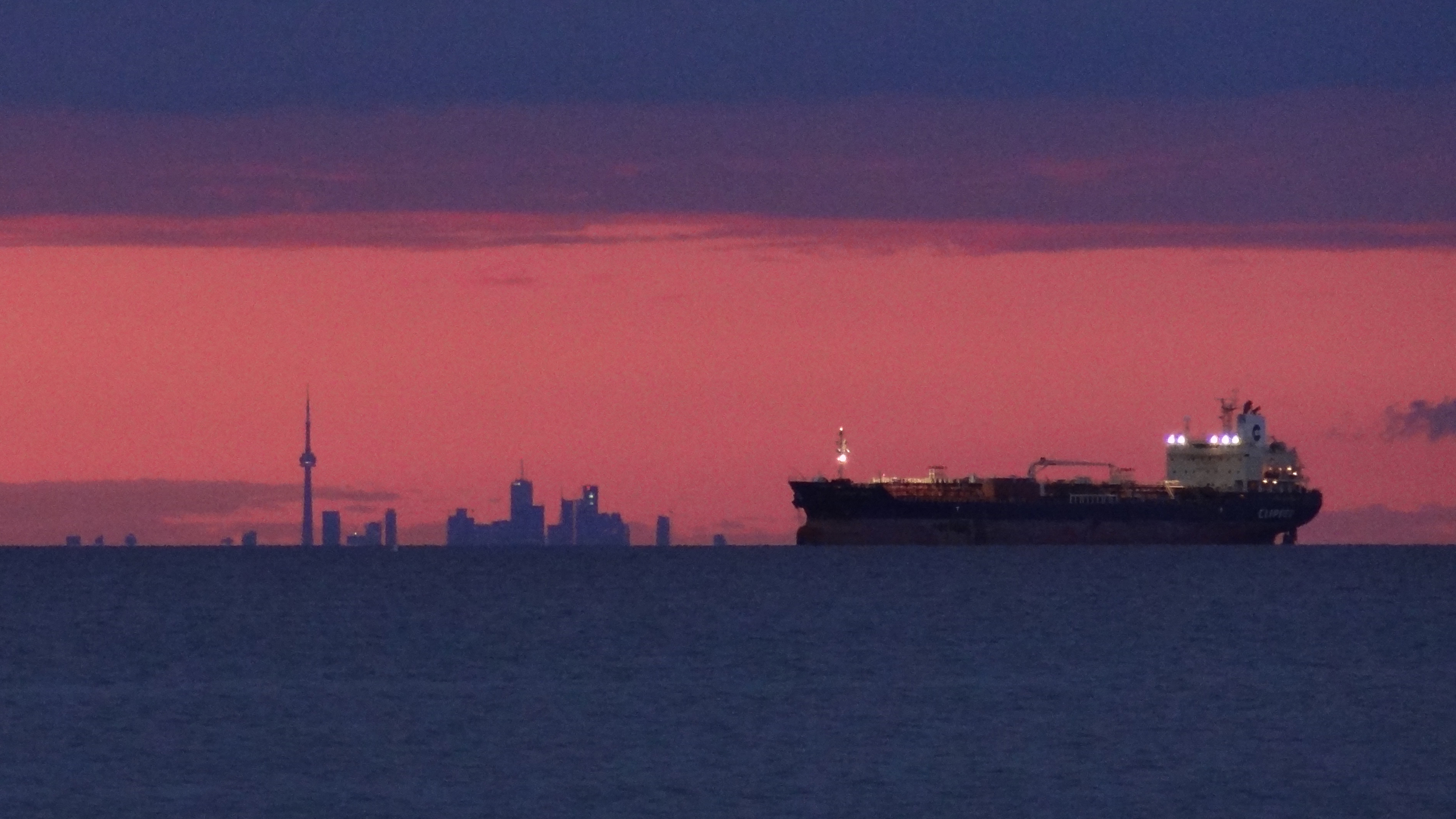 Toronto, Canada, seen across Lake Ontario at twilight. Taken from the end of the pier at Port Dalhousie, Ontario, with Toronto's CN Tower 51 km distant. The ship on the lake is approximately 5-10 km away.